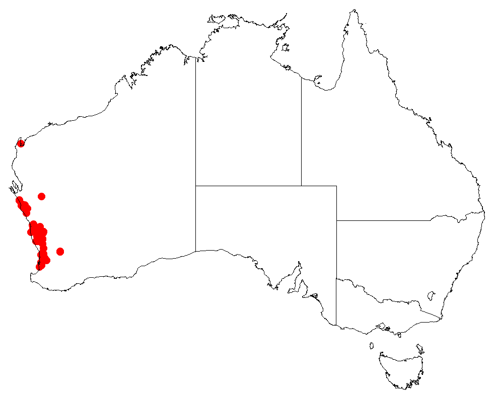 Hakea candolleana Occurrence data downloaded from Australasian Virtual Herbarium on 22 November 2018 using